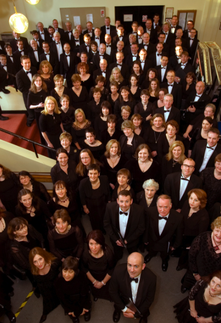 Picture of the RTÉ Philharmonic Choir